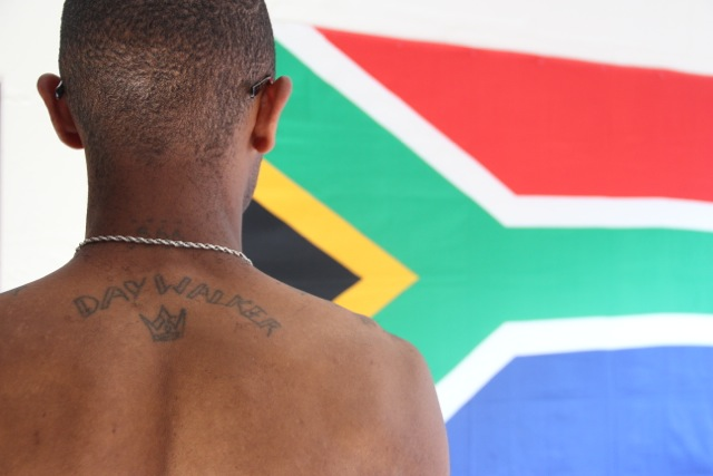 Day Walker was Welcome’s nickname in the gang and crowns represent a leadership position. “While there is intimidation on lower levels, when you’re on a high level you can create that opportunity to get out,” says Welcome. Background Welcome transformed his life to become a women’s rights champion after taking part in a UK aid supported prisons project with Sonke Gender Justice. Their One Man Can campaign tackles HIV and gender-based violence. In March 2013 the United Nation's Commission on the Status of Women will meet to discuss how to prevent all forms of violence against women and girls. This International Women's Day, help demand action by sending a message to global leaders that it's time to put a stop to this worldwide injustice. UK aid is working in 21 countries to address physical and sexual violence against women and girls and will be supporting 10 million women and girls with improved access to security and justice services by 2015. Find out more at For more information about the Sonke Gender Justice programme visit .za/ Picture: Lindsay Mgbor/Department for International Development Terms of use This image is posted under a Creative Commons - Attribution Licence, in accordance with the Open Government Licence. You are free to embed, download or otherwise re-use it, as long as you credit the source as Lindsay Mgbor/Department for International Development'.